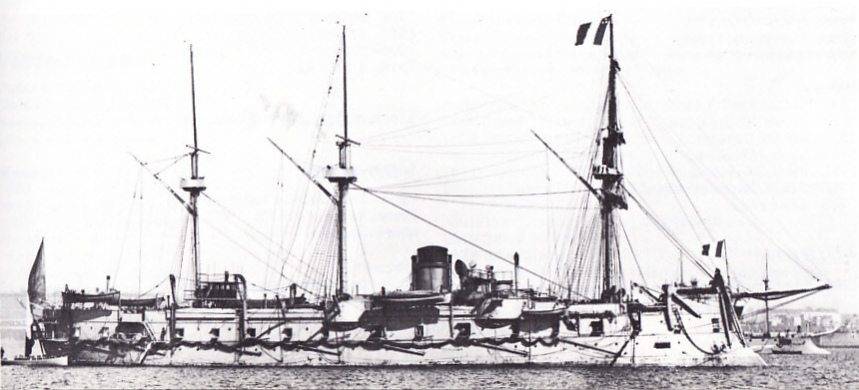 French ironclad Suffren.